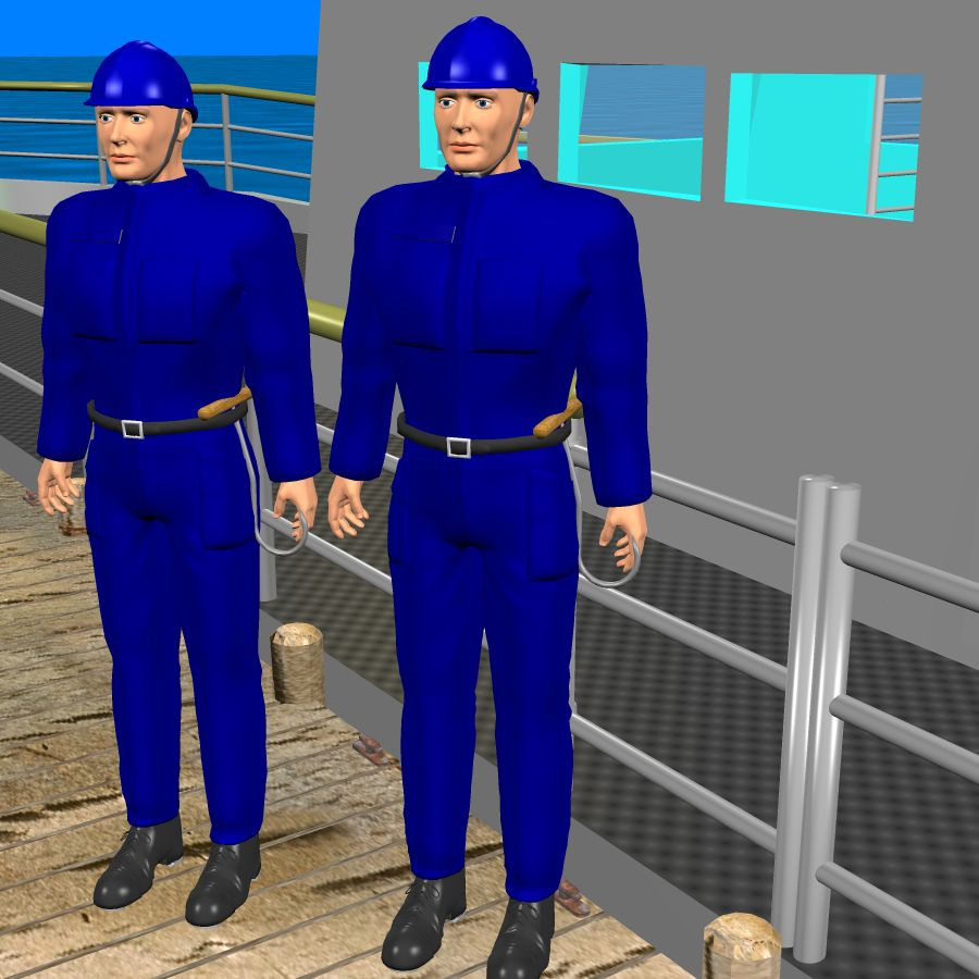 Two men with longshoreman's hooks in belts, on jetty; drawing